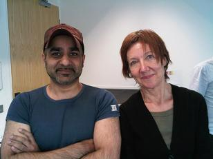 Jerwood Space London Aneel Ahmad & Penny Woolcock. Film Directors